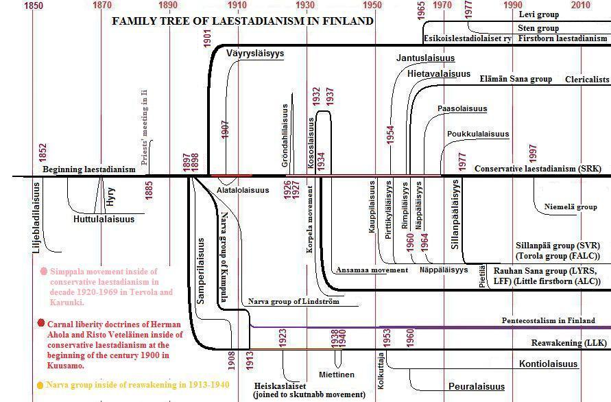 Divisions and groups of laestadianism in Finland. Laestadianism is lutheran christian movement.